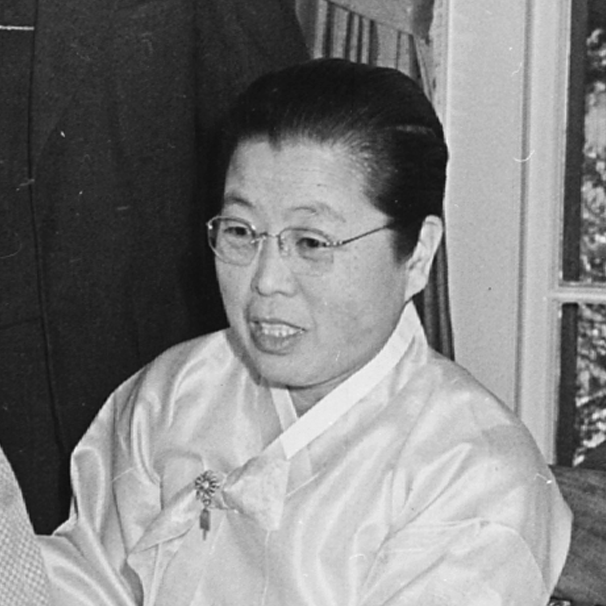 Helen Kim (김활란) Cropped from a photo with a caption: Photograph of President Truman in the Oval Office, receiving a doll from Dr. Helen Kim, a Korean educator, as Dr. John Myun Chang, Ambassador of the Republic of Korea to the United States, and Dr. Frederick Brown Harris, Chaplain of the Senate, look on., 05/08/1951